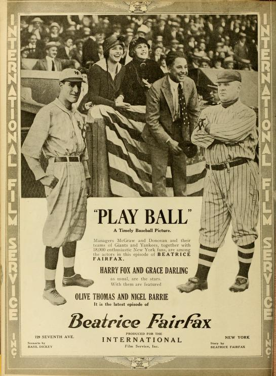 Advertisement in Moving Picture World for the American film serial Beatrice Fairfax.